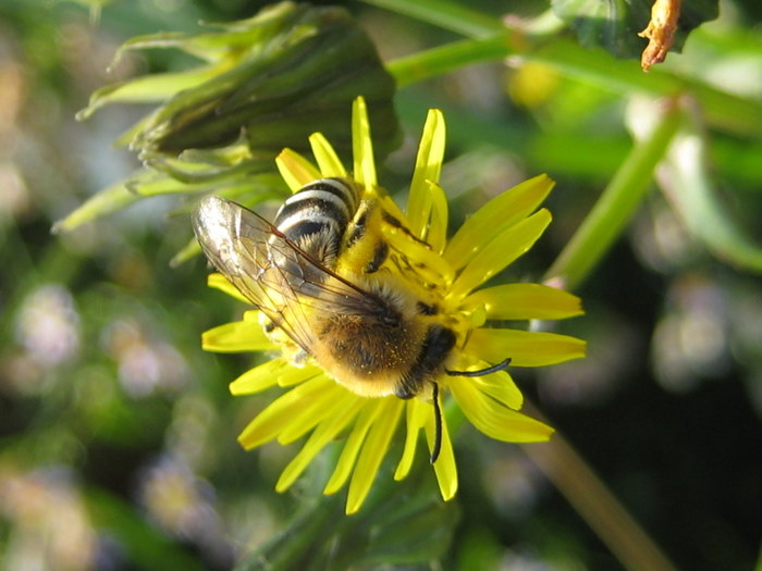 Colletes halophilus, female. Location: The Netherlands - Westkapelle - Westkapelsche Kreek-West e.o.